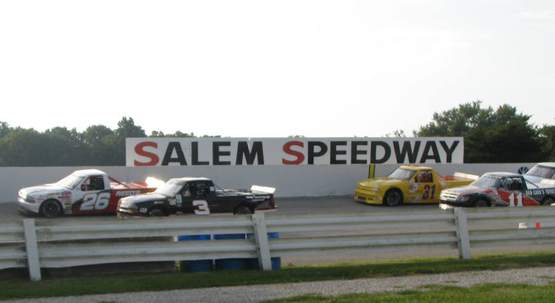 ARCA Lincoln Welders Truck Series event at Salem Speedway with the track sign in the background. Photographer: SimRacin14